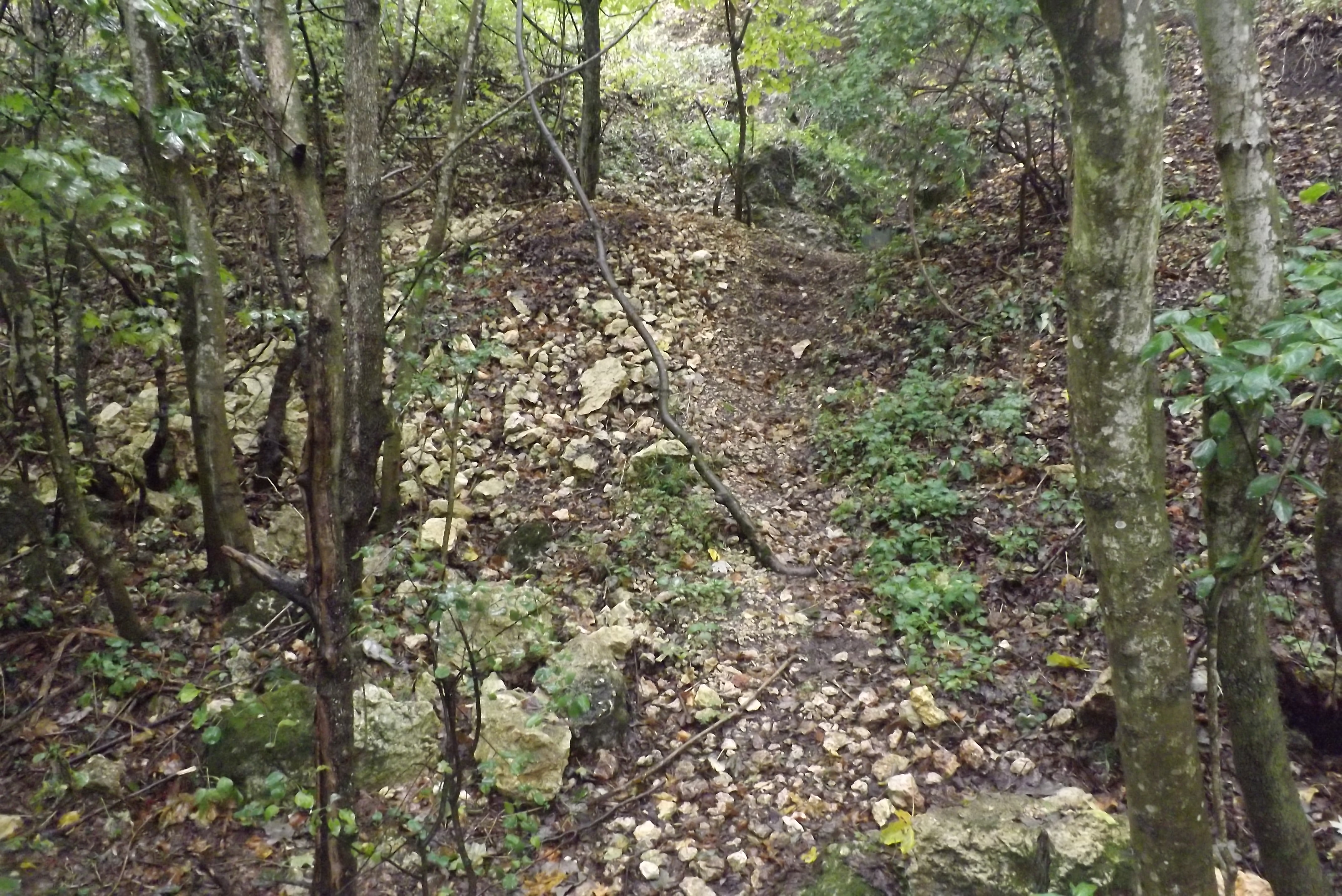 Path to Szeles Cave.